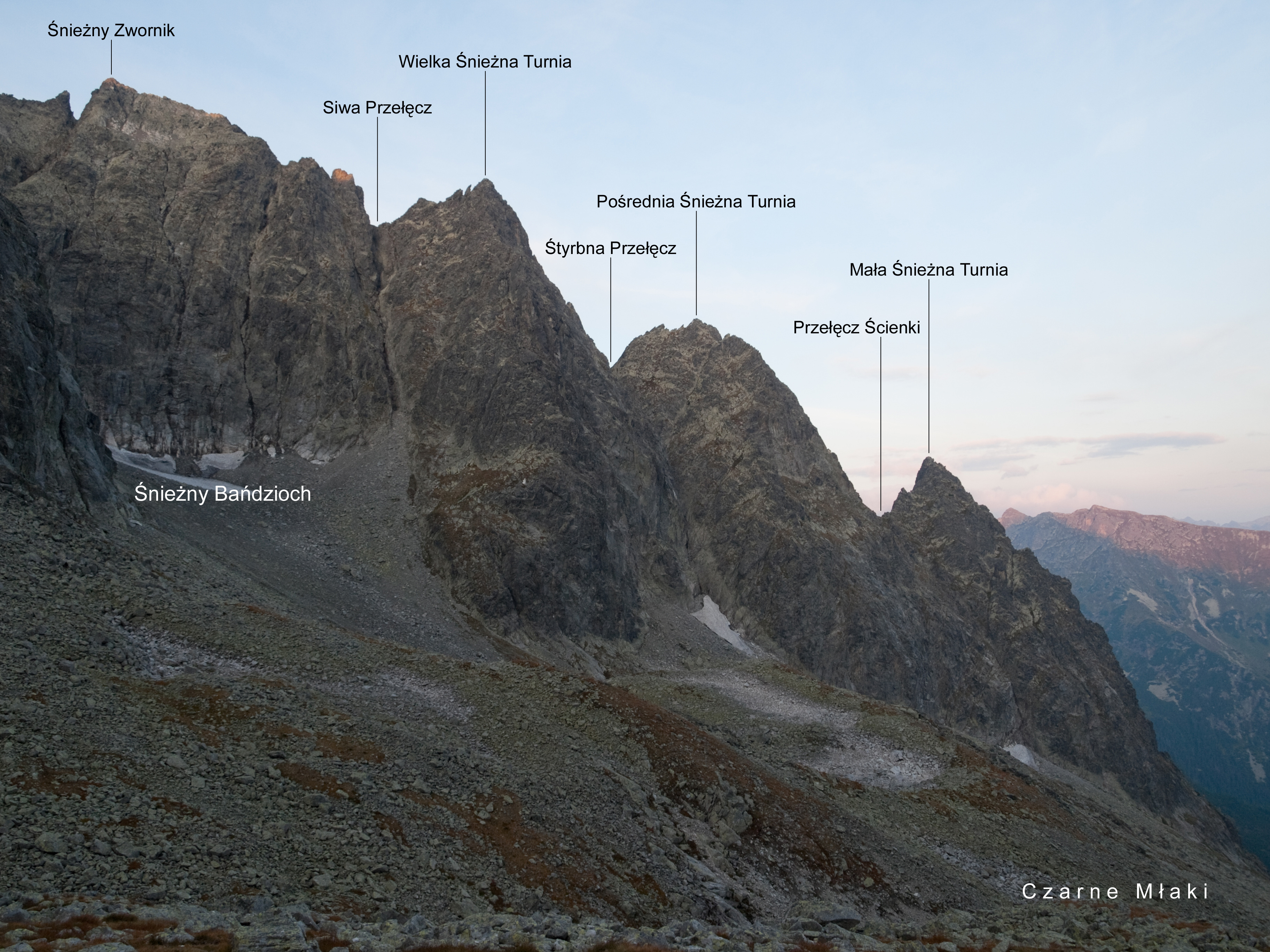 Hrebeň Snehových veží - view from the upper part of Čierna Javorová valley. Polish names of peaks and saddles.